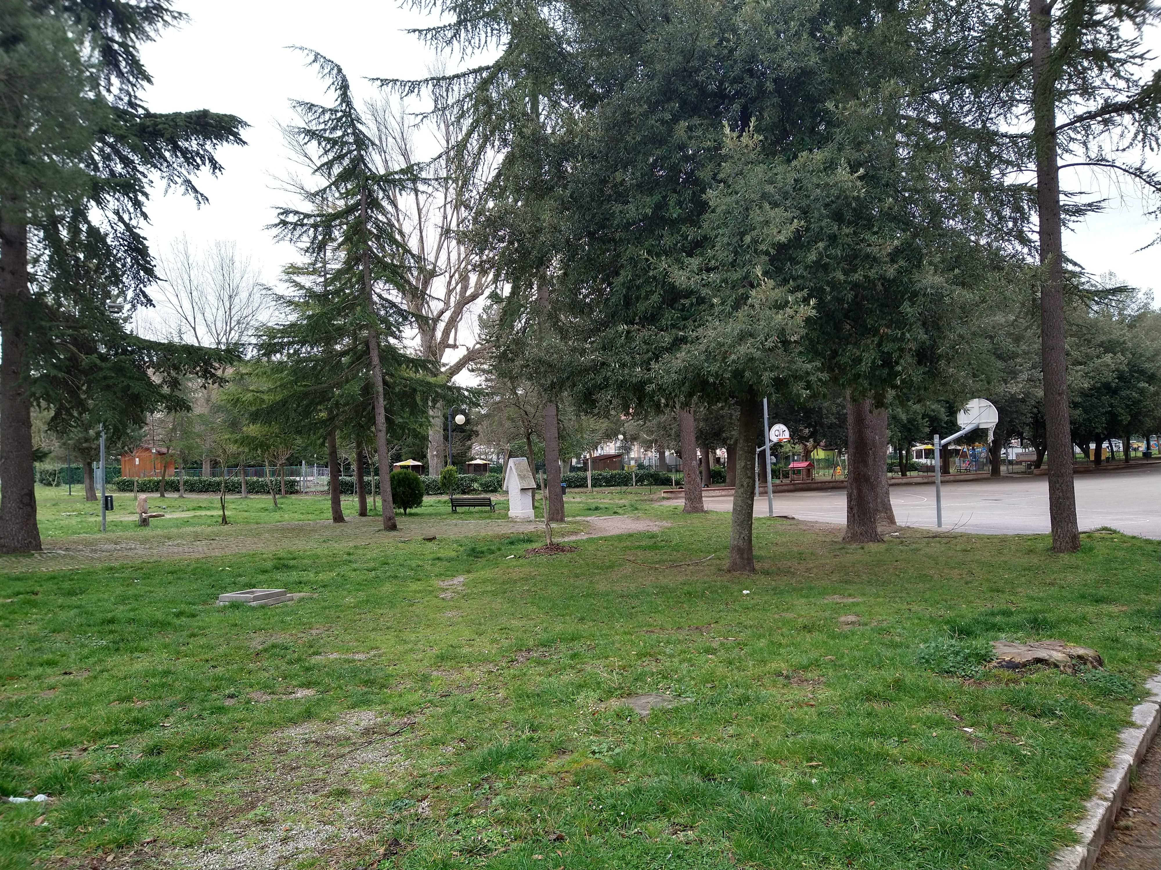 Baden-Powell Park, Potenza, Italy